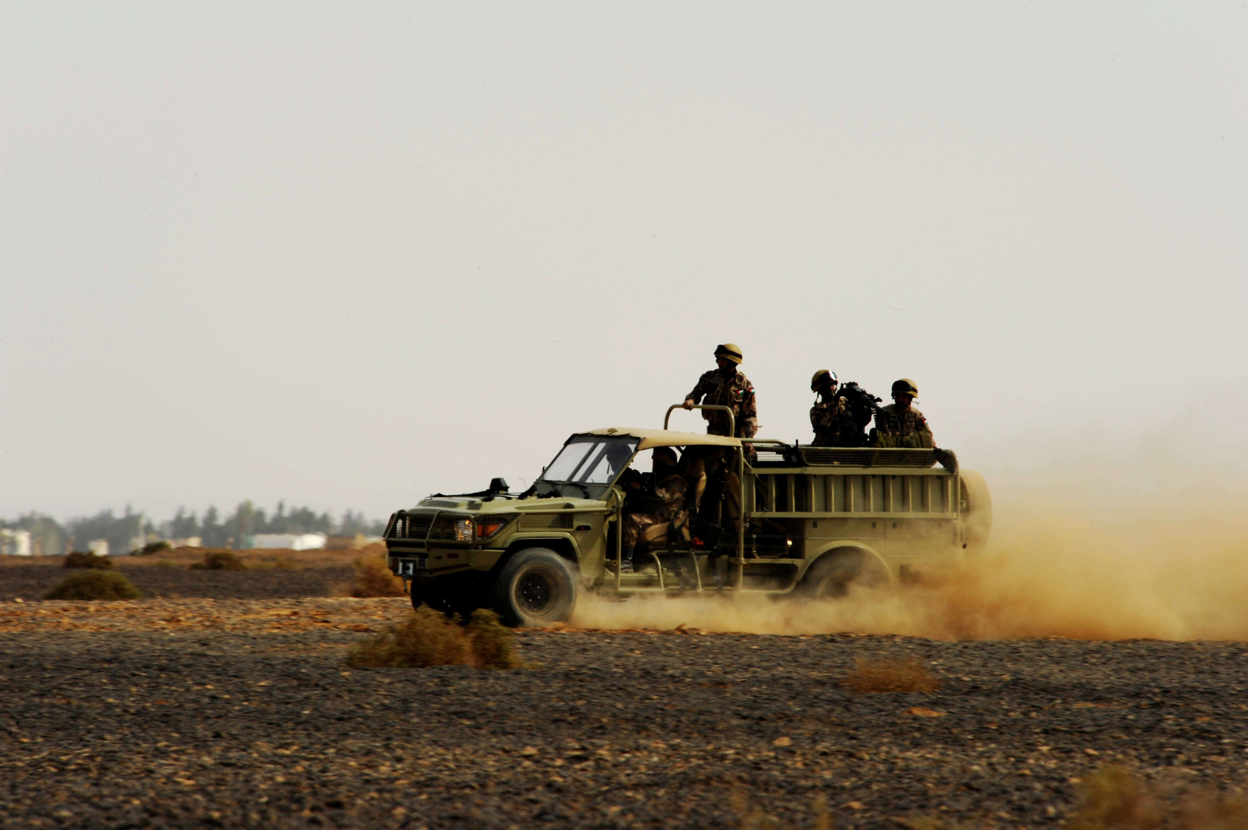 Royal Jordanian special operations soldiers drive to their target house during a Falcon Air Meet 2010 demonstration at Azraq Royal Jordanian Air Base in Azraq, Jordan, Nov. 1, 2010. The United States, Jordan and Pakistan participated in Falcon Air Meet 2010 to improve international military relations and joint air operations.